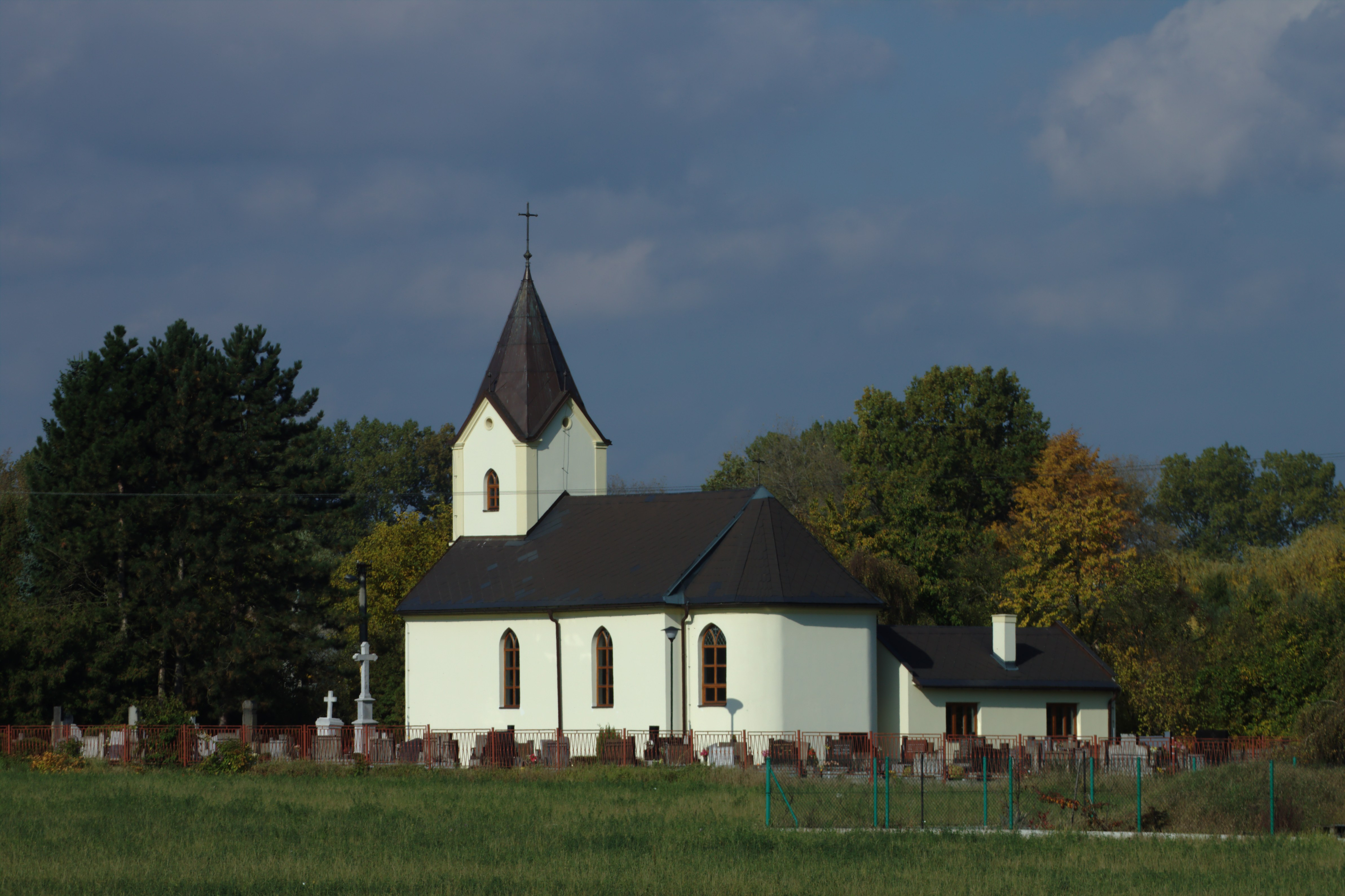 A church in the village of Lhota near Háj ve Slezsku, Moravian-Silesian Region, CZ